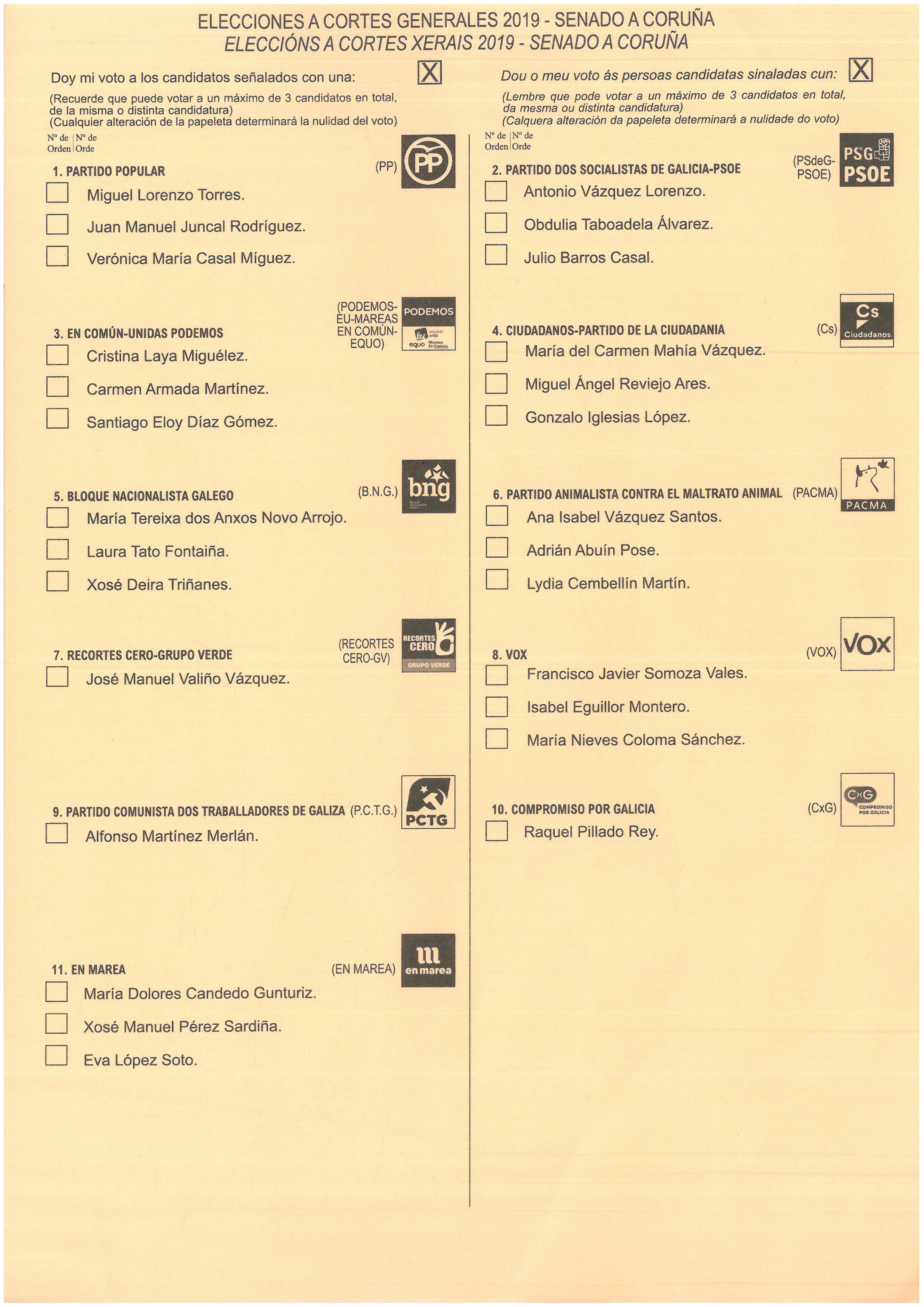 Ballot for Spanish General Elections of April 28th, 2019